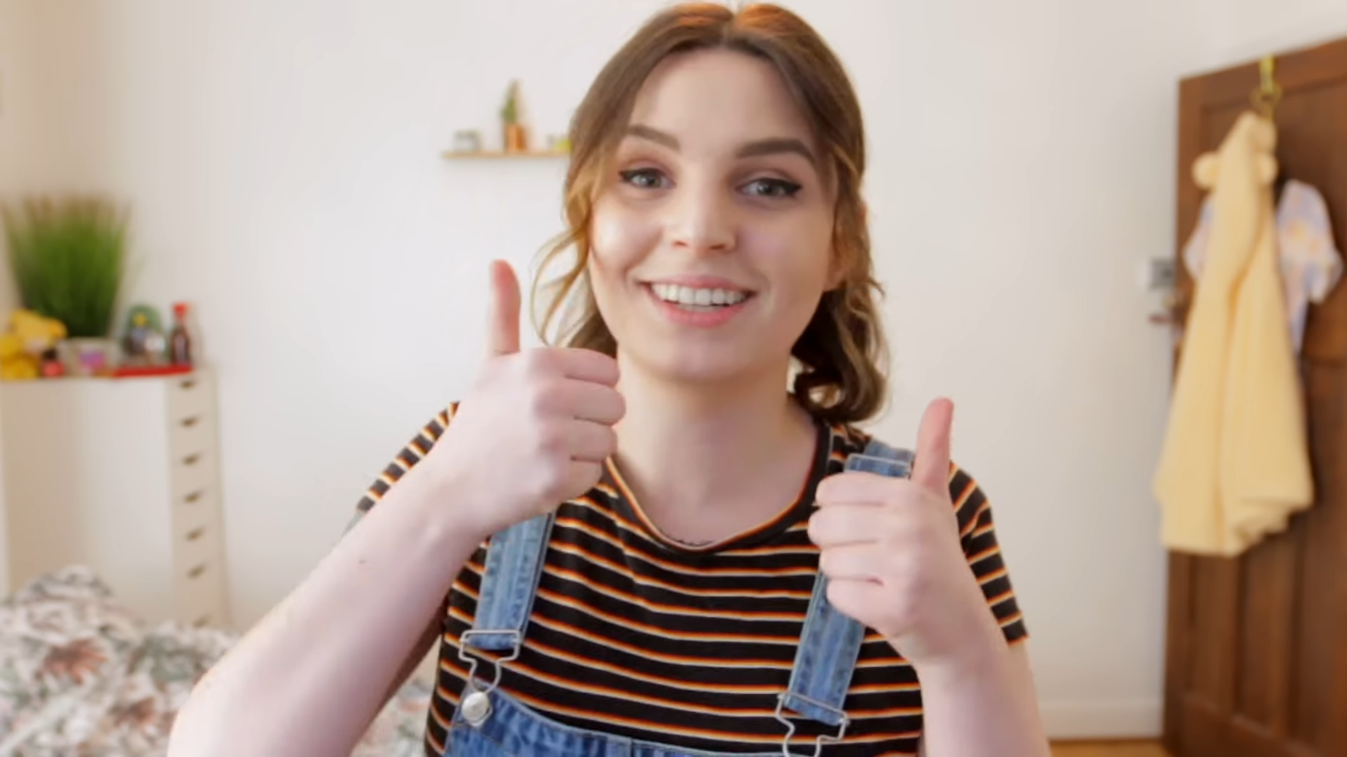 Emma Blackery in 2018.